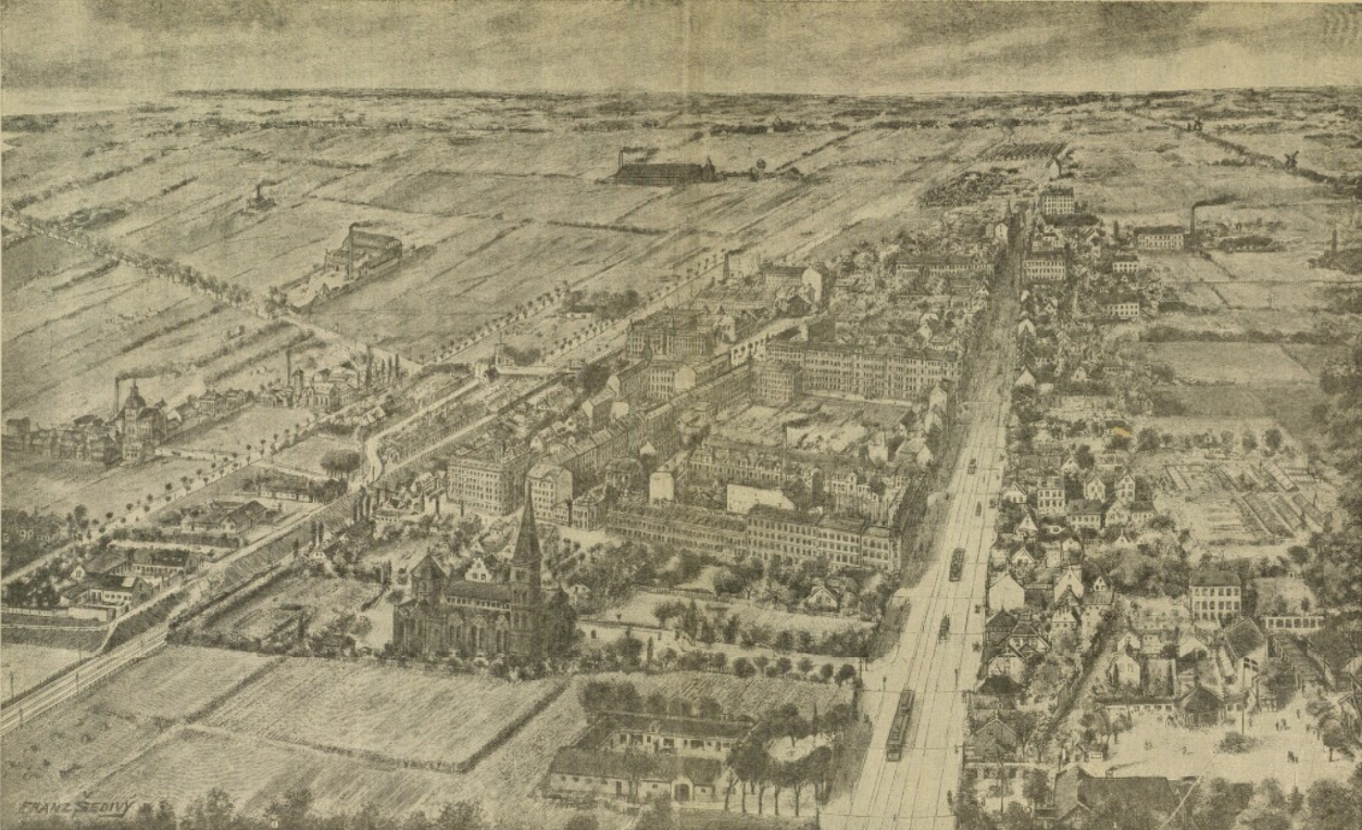 F. L. Smidth & Co. A/S, ingeniøer og maskinfabrikanter. Panorama fra 1908, 1969.09.04